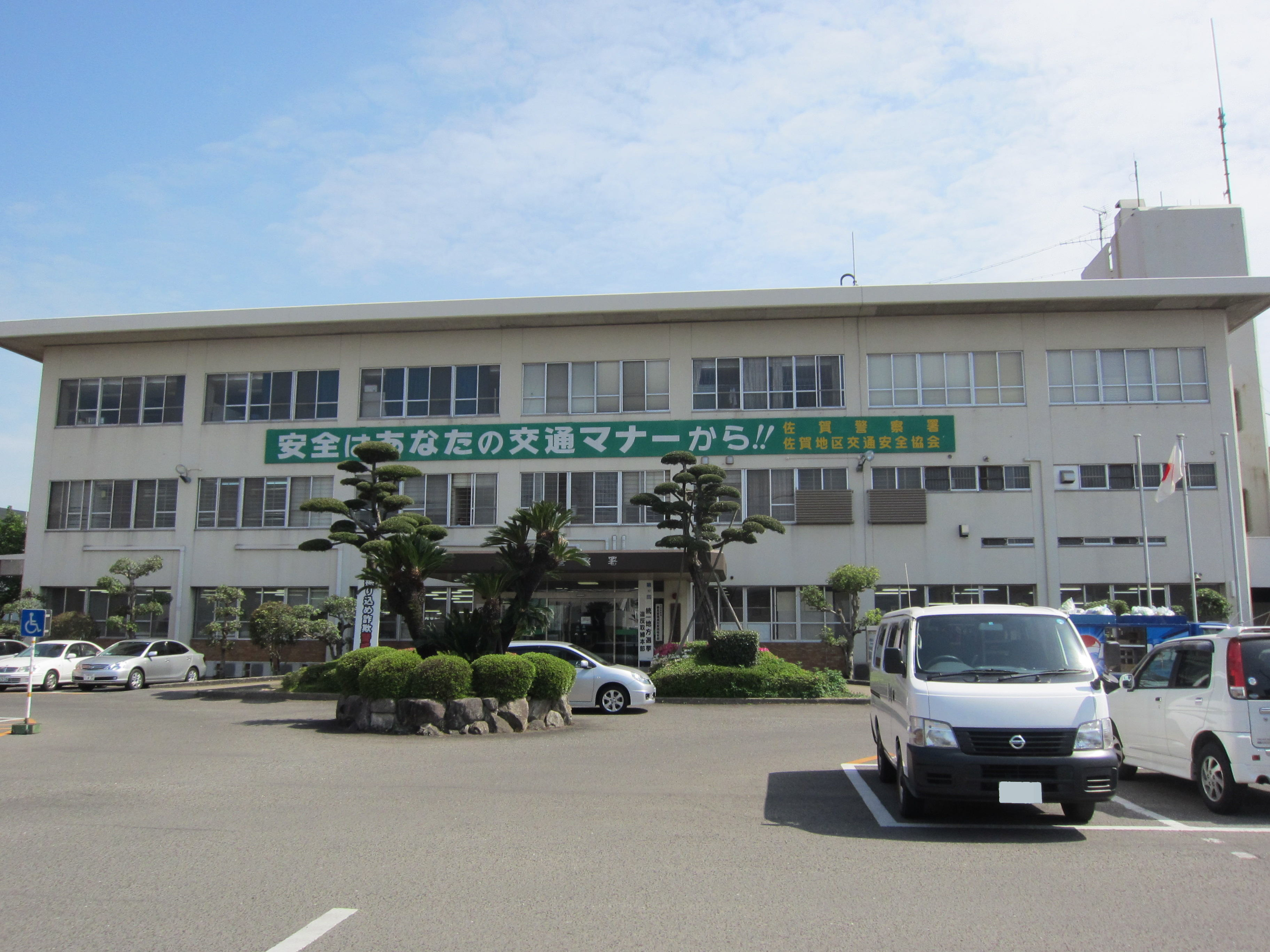 Saga police Station